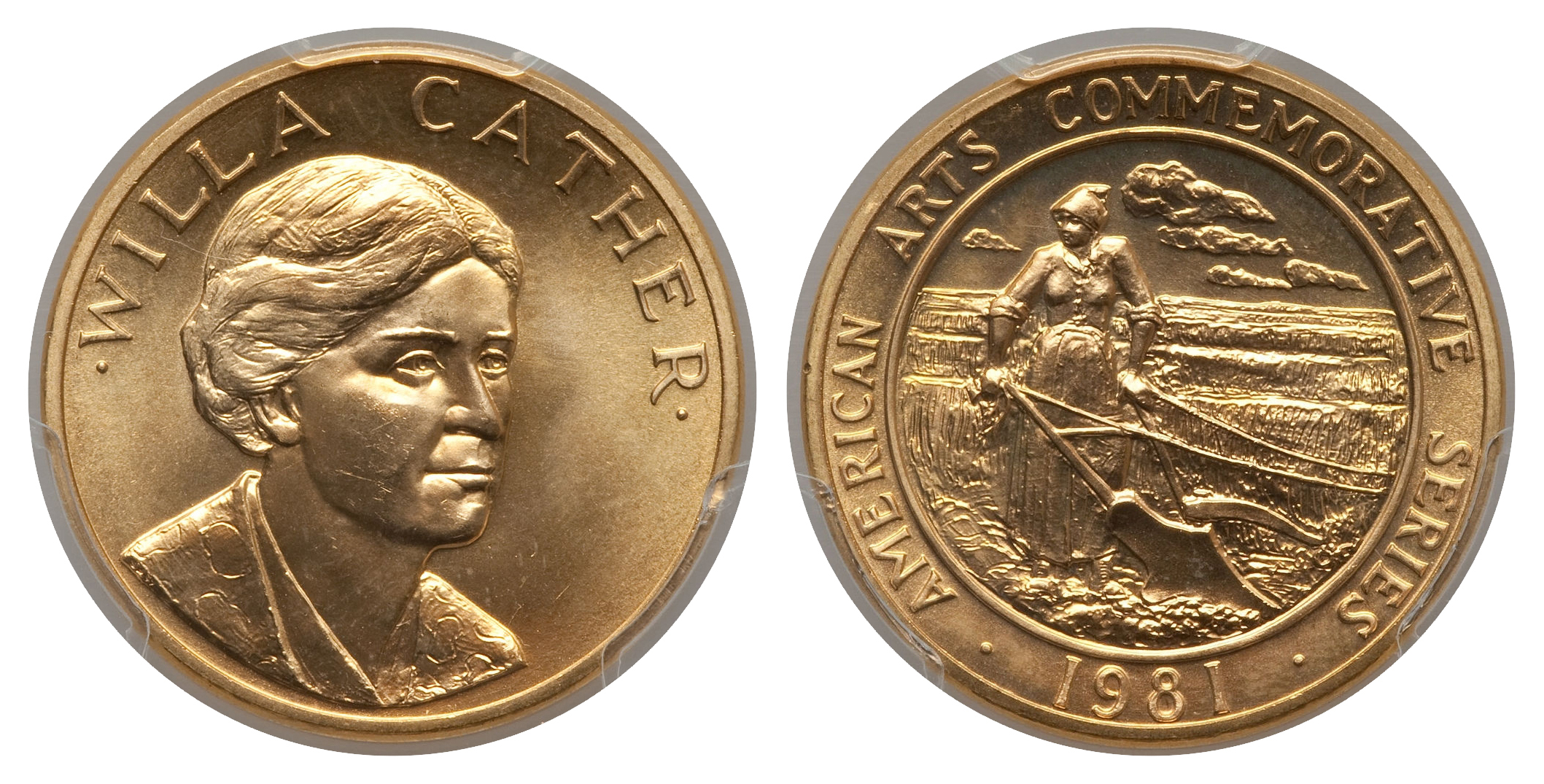 1981 Willa Cather Half-Ounce Gold Medal (1207-9546)